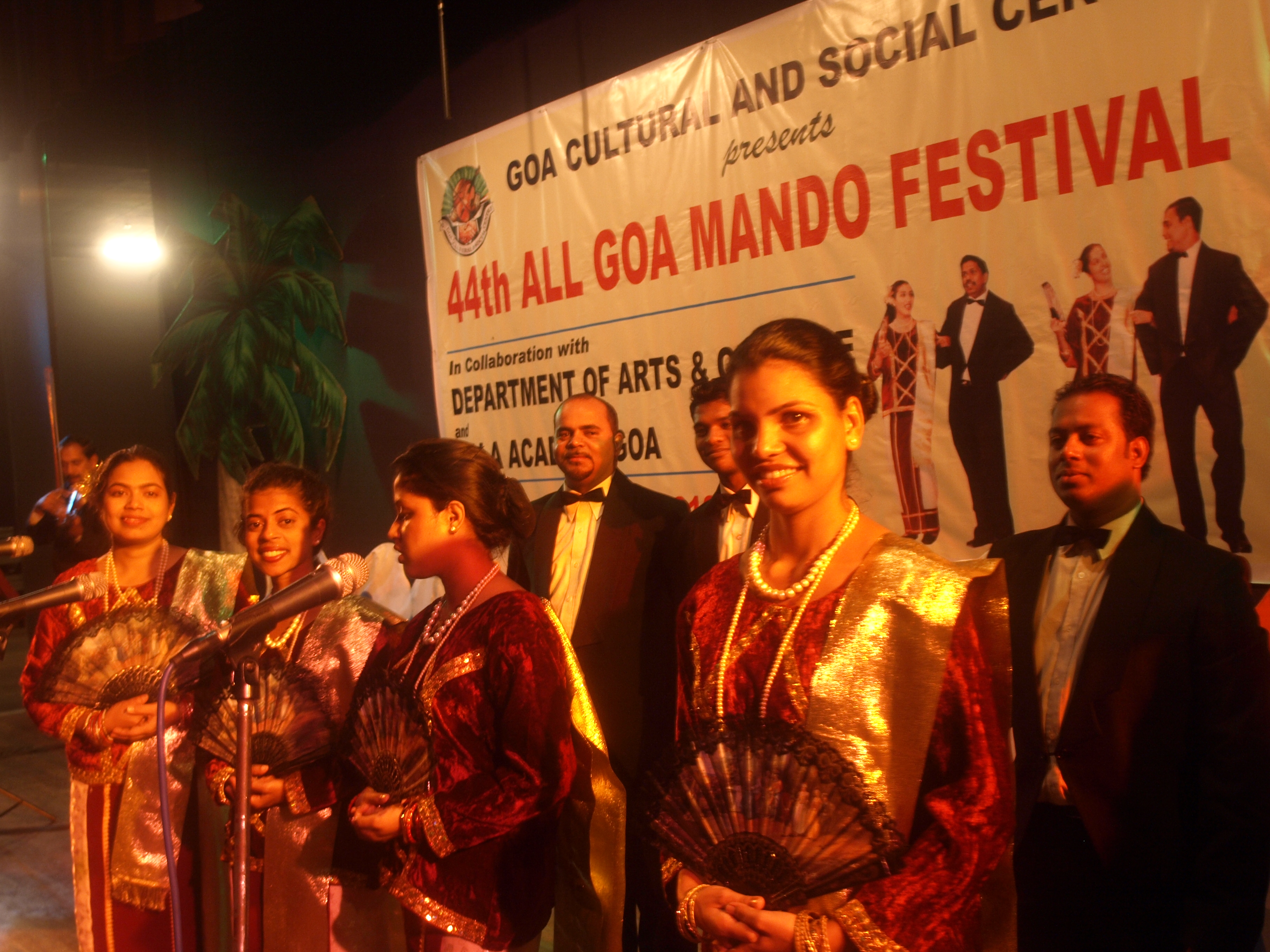 Mando festival underway in Goa. Photo by Frederick Noronha, +91-9822122436.